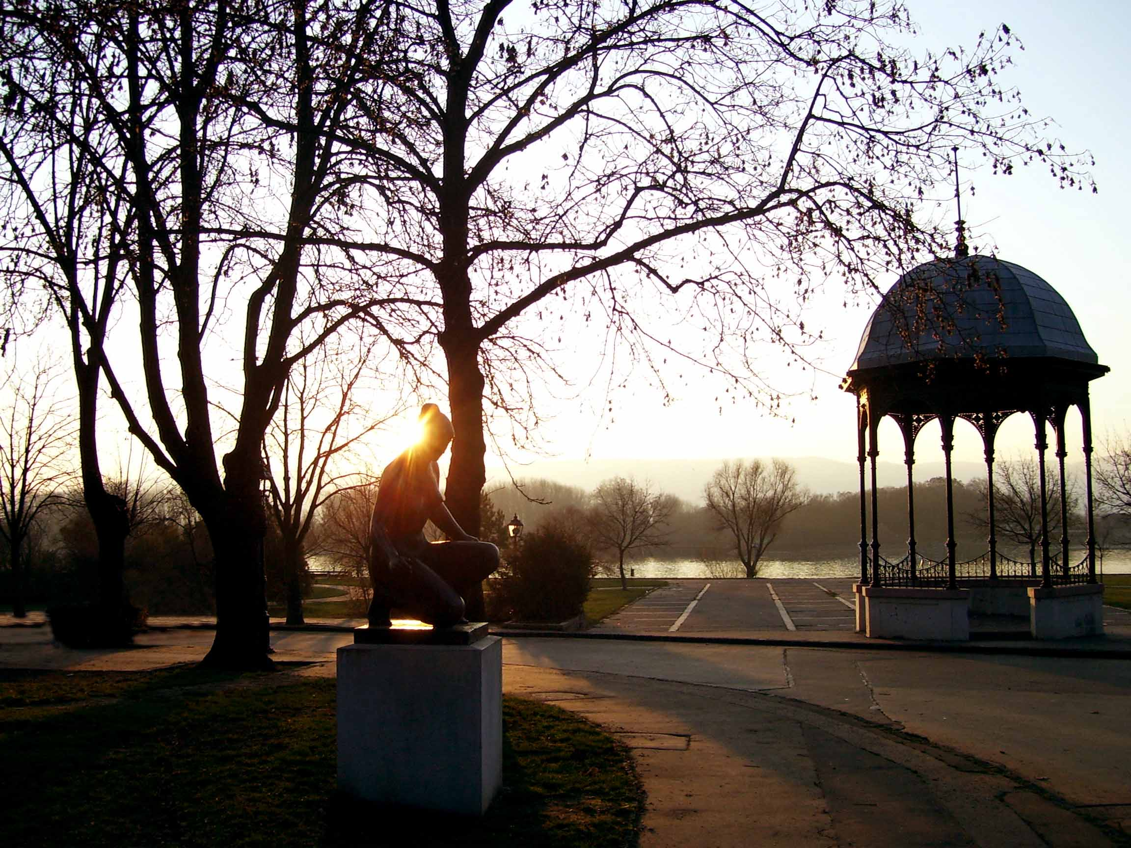 Girl with jar bronze statue by Sándor Mikus in 1964.